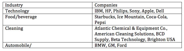 Sample DfE companies